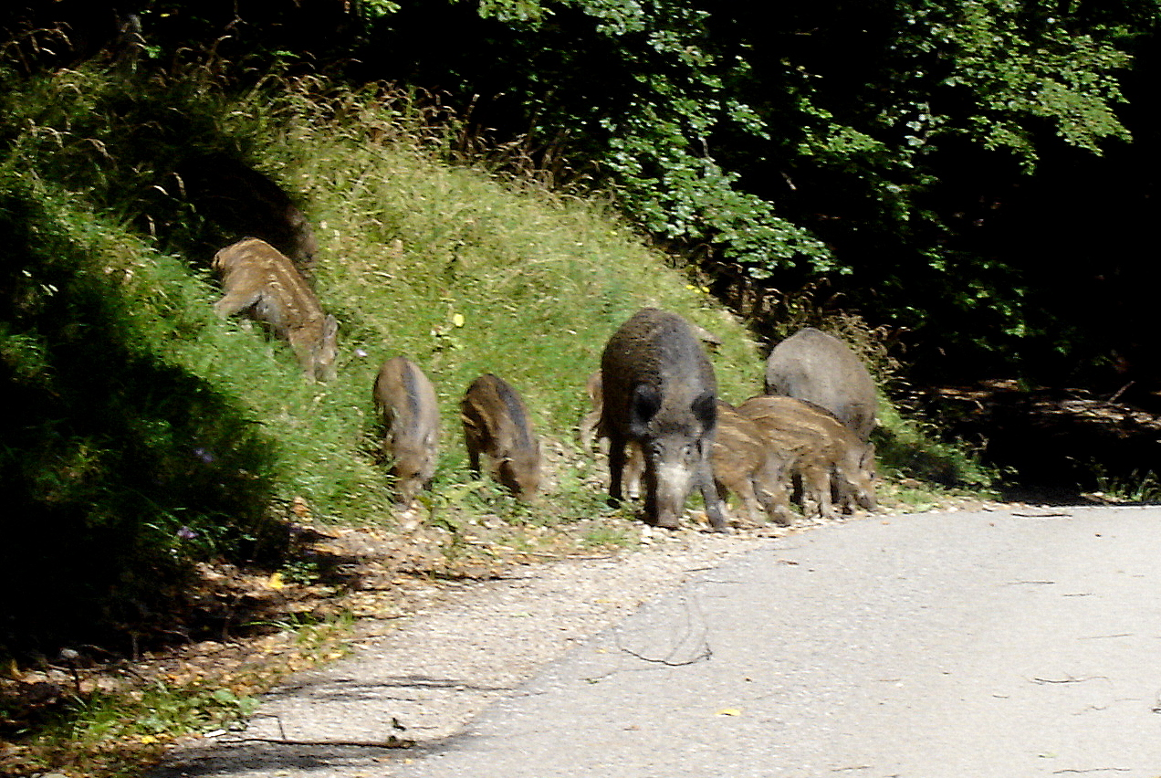 Wild boars on the a path in Vienna's Lainzer Tiergarten